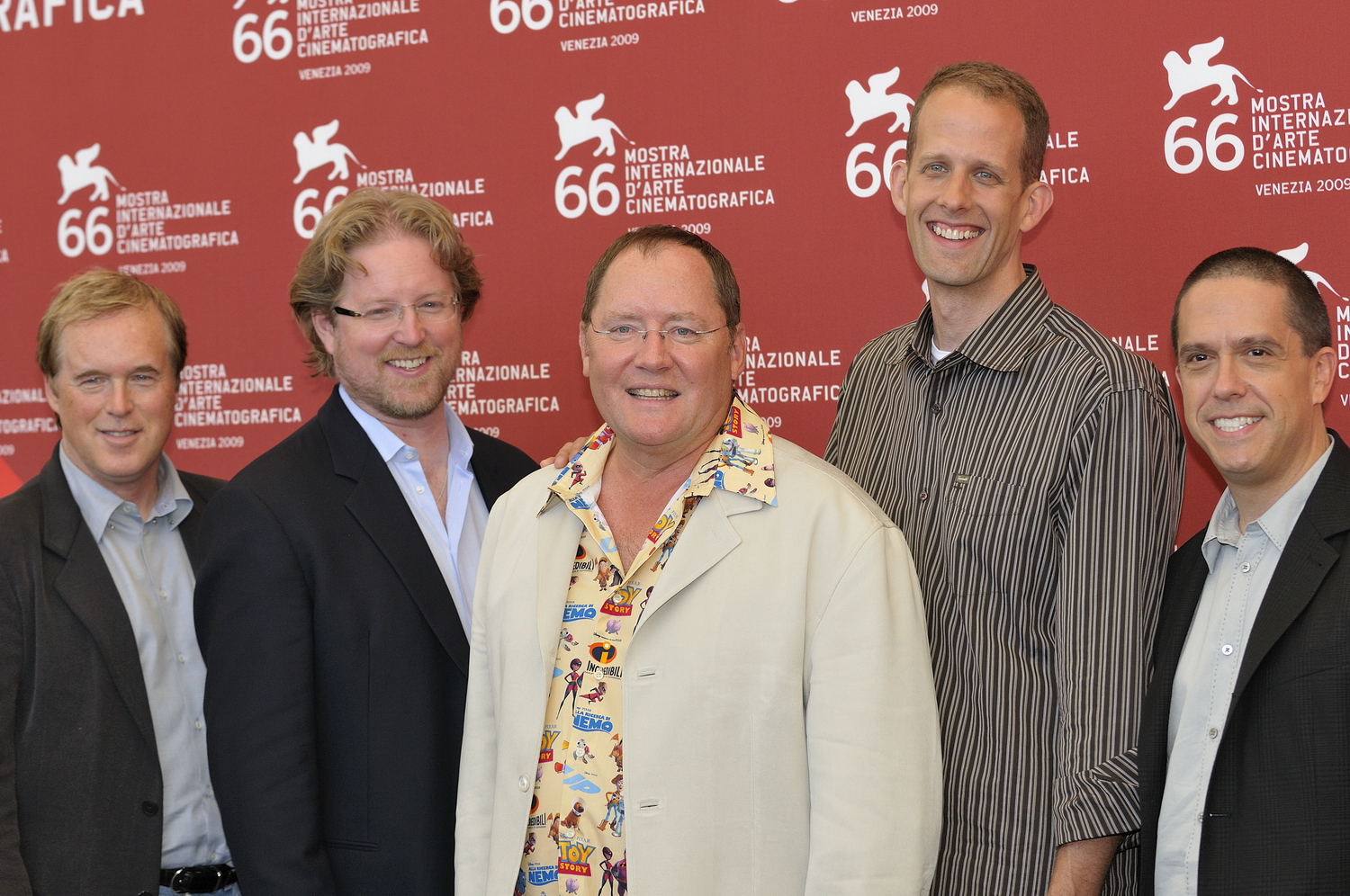 66th Venice Film Festival (Mostra), 5th day (September 6, 2009) Pixar directors receive a Golden Lion for their entire career: John Lasseter (Toy Story, A Bug's Life, Cars...), Brad Bird (The Incredibles, Ratatouille), Pete Docter (Monsters Inc., Up), Andrew Stanton (Finding Nemo, WALL•E) and Lee Unkrich (Toy Story 2, Monsters Inc., Finding Nemo)